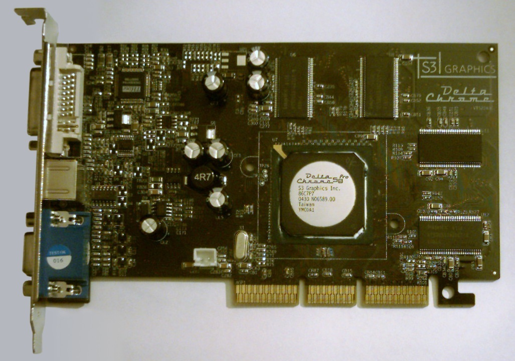 Club3D S3 Deltachrome S8 card without cooler